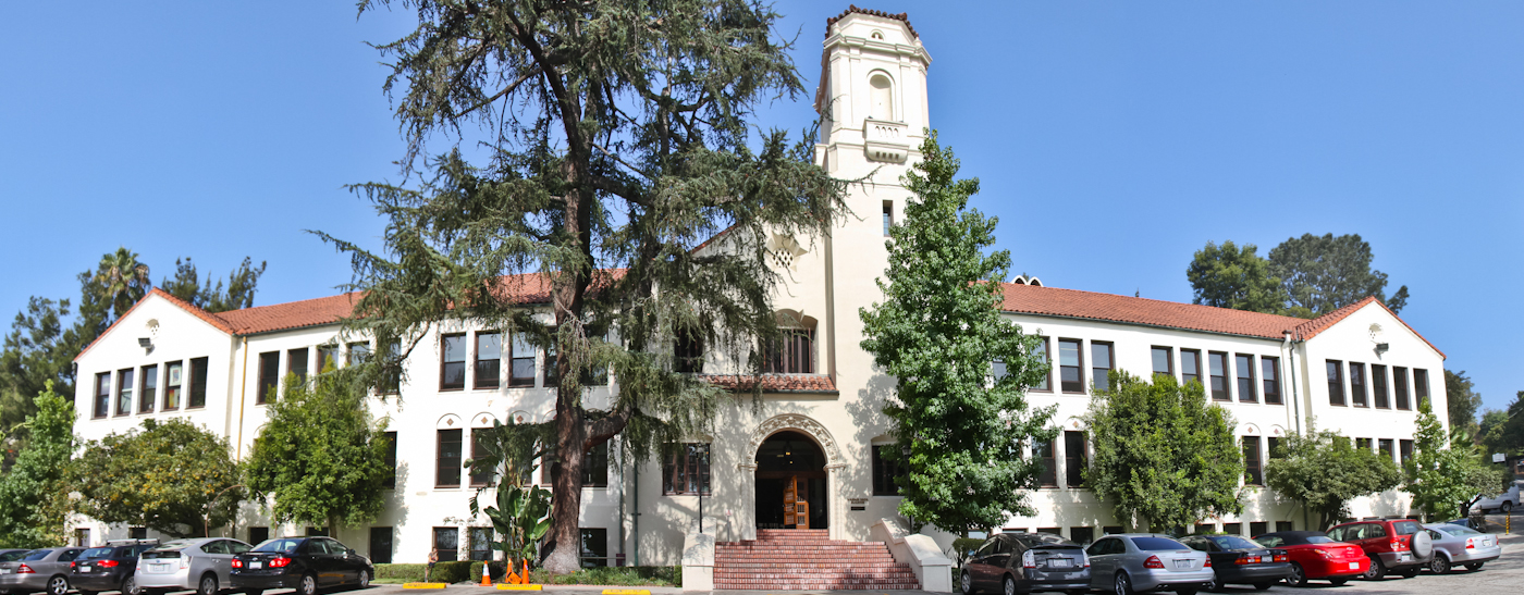 The Warner Bros. Building on the American Film Institute Campus.